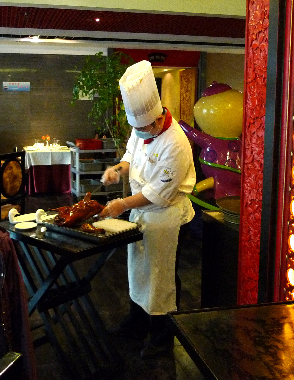 Bianyifang roast duck